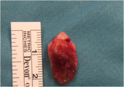 Picture shows an excised pilonidal cyst